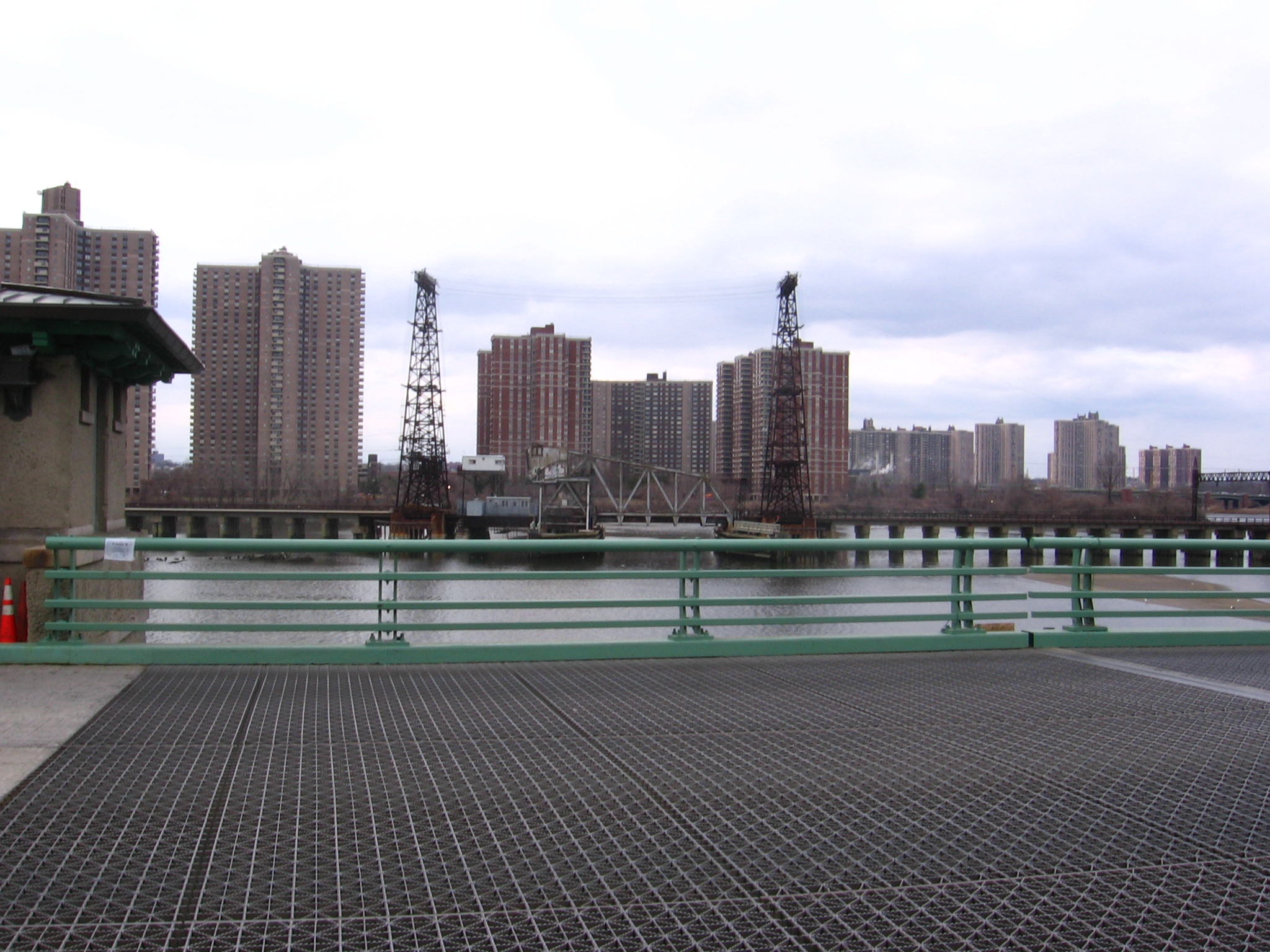 View of Amtrak Northeast Corridor drawbridge over the Hutchinson River from the Pelham bridge with Co-op City in distant background.